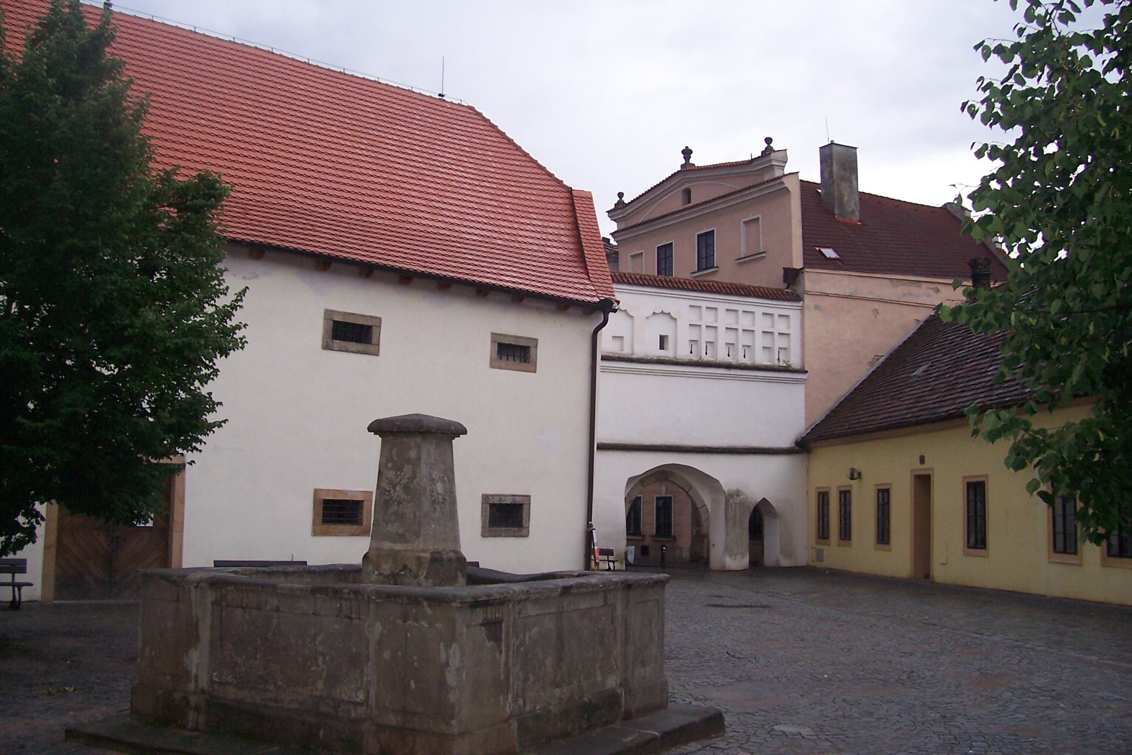 Pardubice, Czech Republic. Front of the chateau.